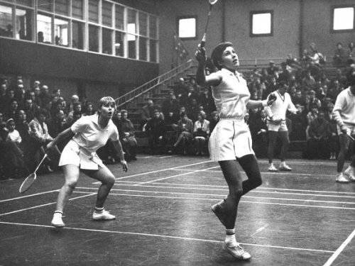 Agnes Geene (left) and Imre Rietveld Nielsen